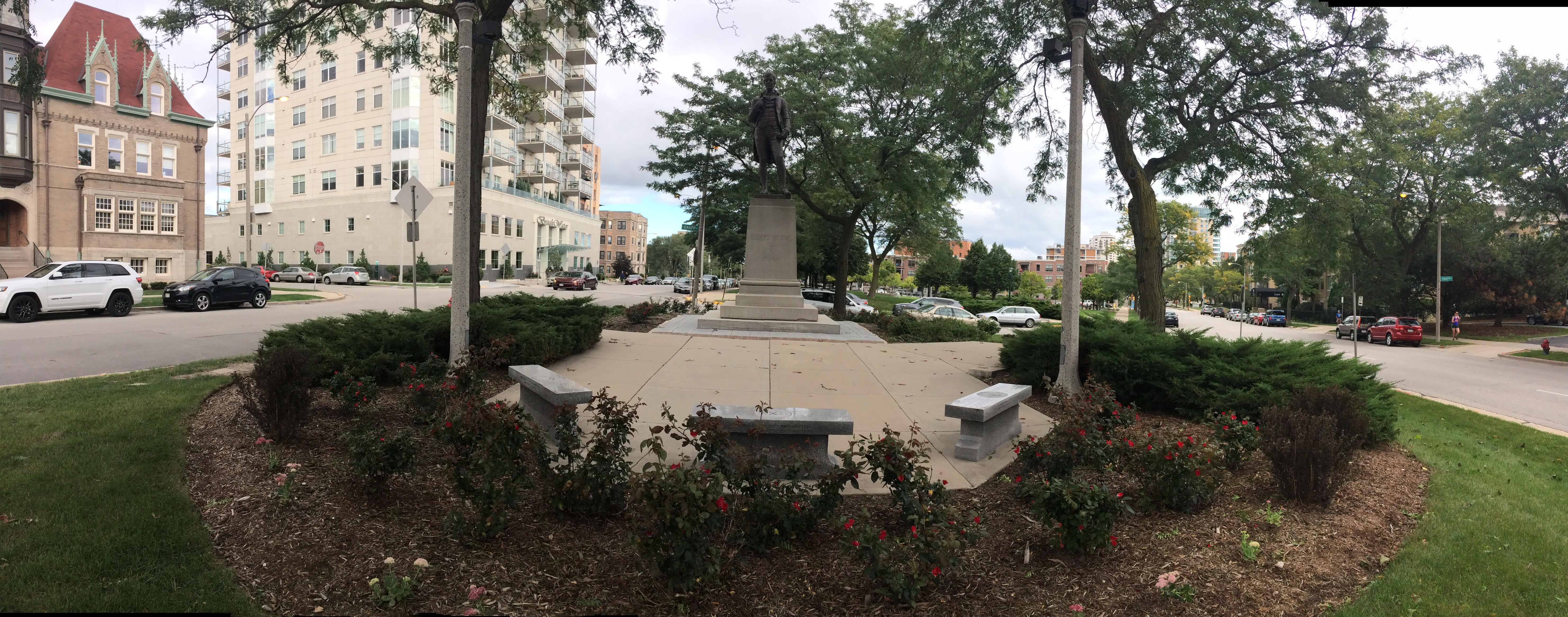 Panoramic photo of Burns Monument facing North with benches in the foreground. Photo by John Schafer Jr.